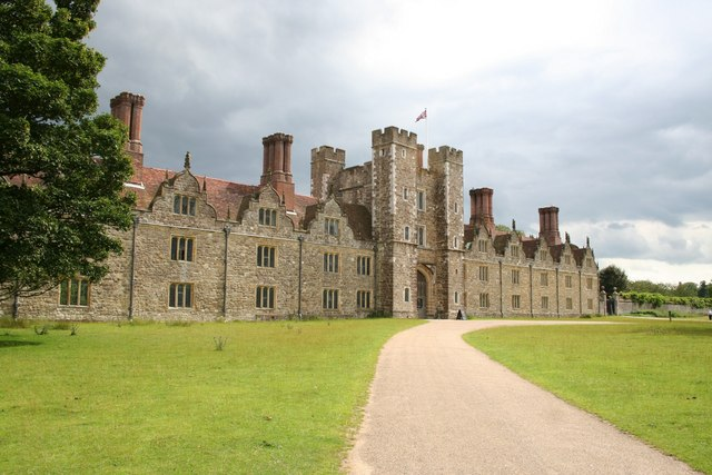 Knole, west front